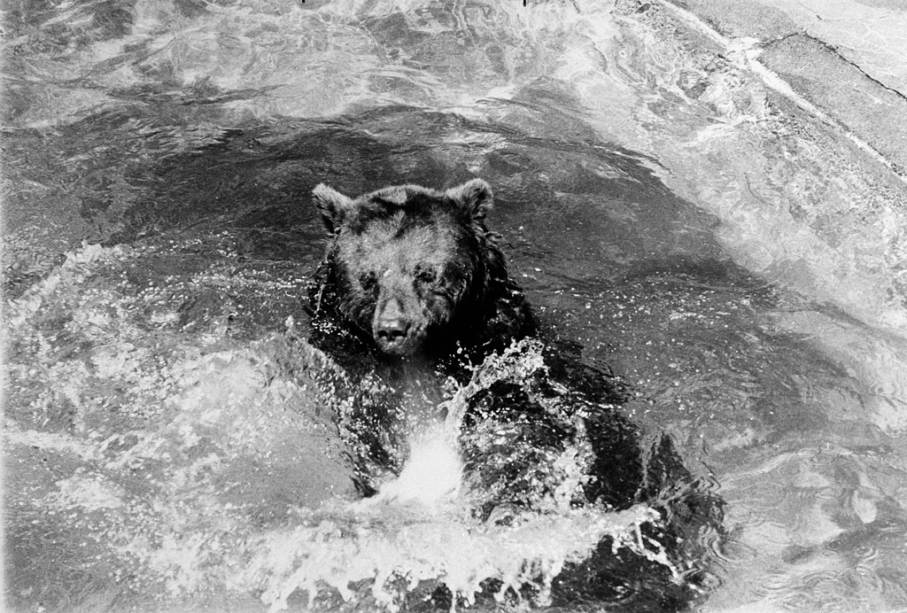 The original Smokey Bear frolicking in a pool at the National Zoological Park, Smokey Bear was brought from New Mexico in June of 1950 after being burned as a cub from a forest fire that swept through a portion of the Lincoln National Forest, Smokey Bear served as a living symbol of the Smokey Bear forest fire prevention program, c. 1950s, by Francine Schroeder, Photographic print, Smithsonian Institution Archives, Record Unit 371, Box 2, Folder: December 1976, Negative Number: 92-3559.